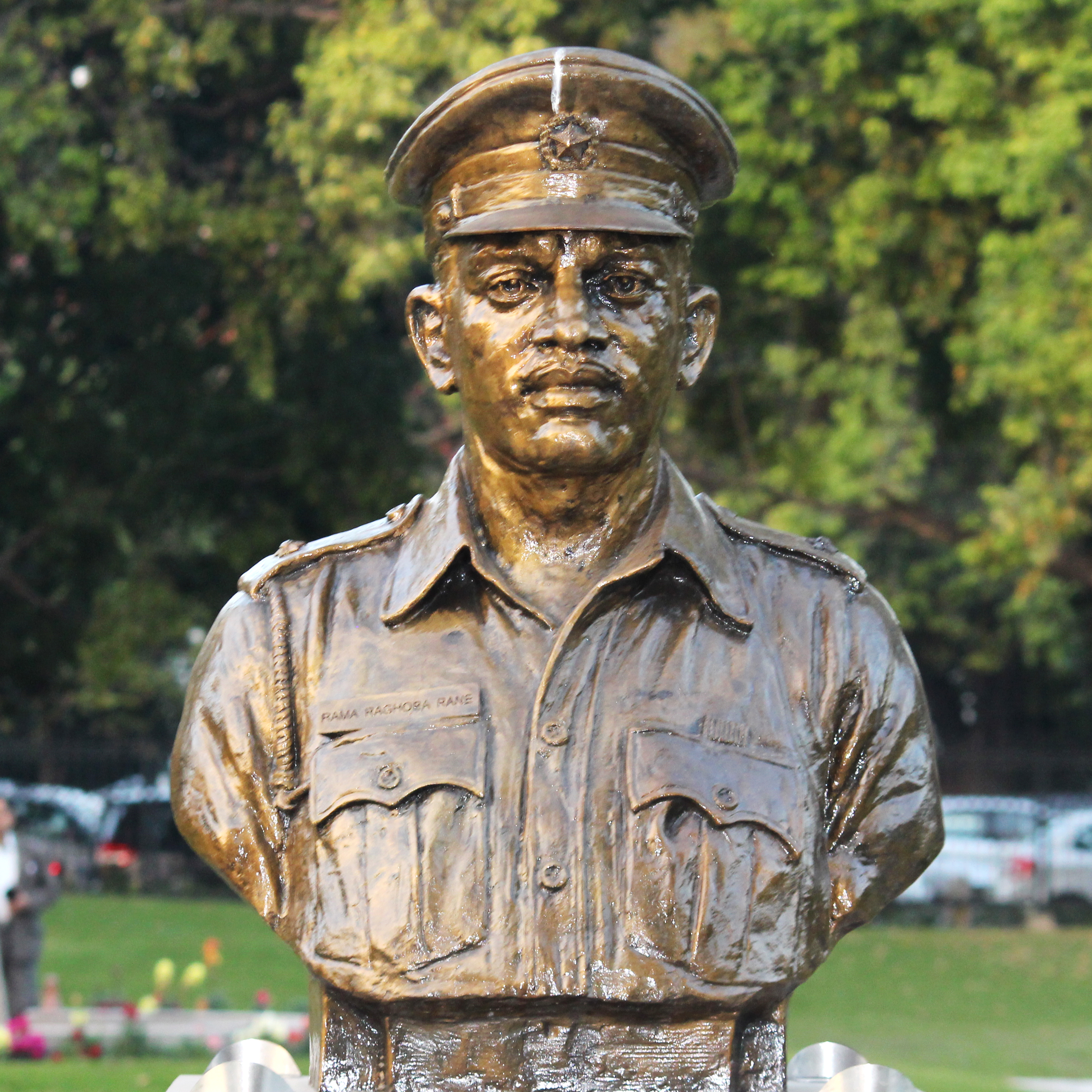 Second Lieutenant Rama Raghoba Rane's statue at Param Yodha Sthal (section for Param Vir Chakra recipients), National War Memorial, New Delhi.